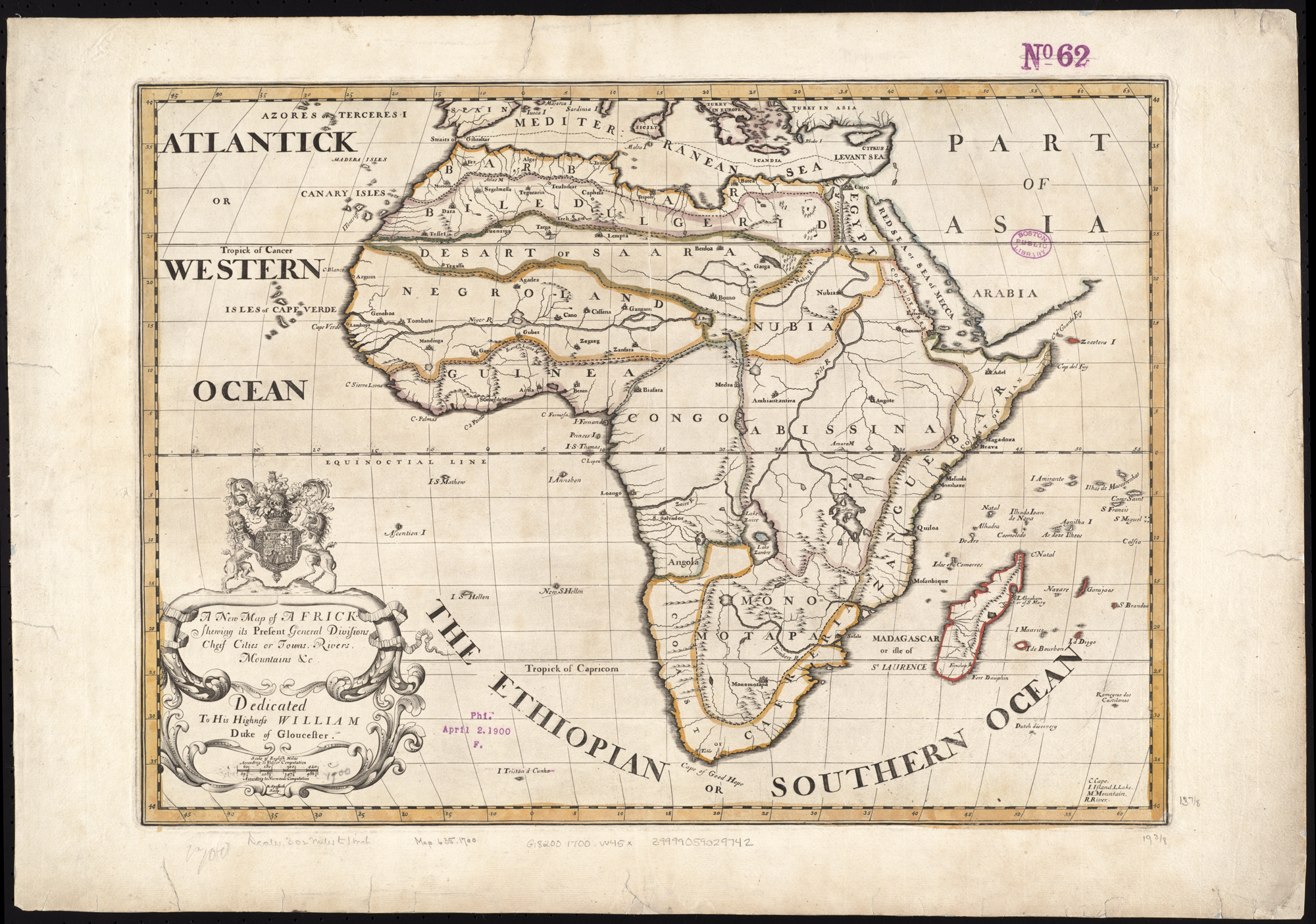 Zoom into this map at . Author: Wells, Edward Publisher: Sheldonian Theatre Date: 1700 Location: Africa Dimensions: 36 x 50 cm. Scale: ca. 1:25,000,000 Call Number: G8200 1700 .W45x